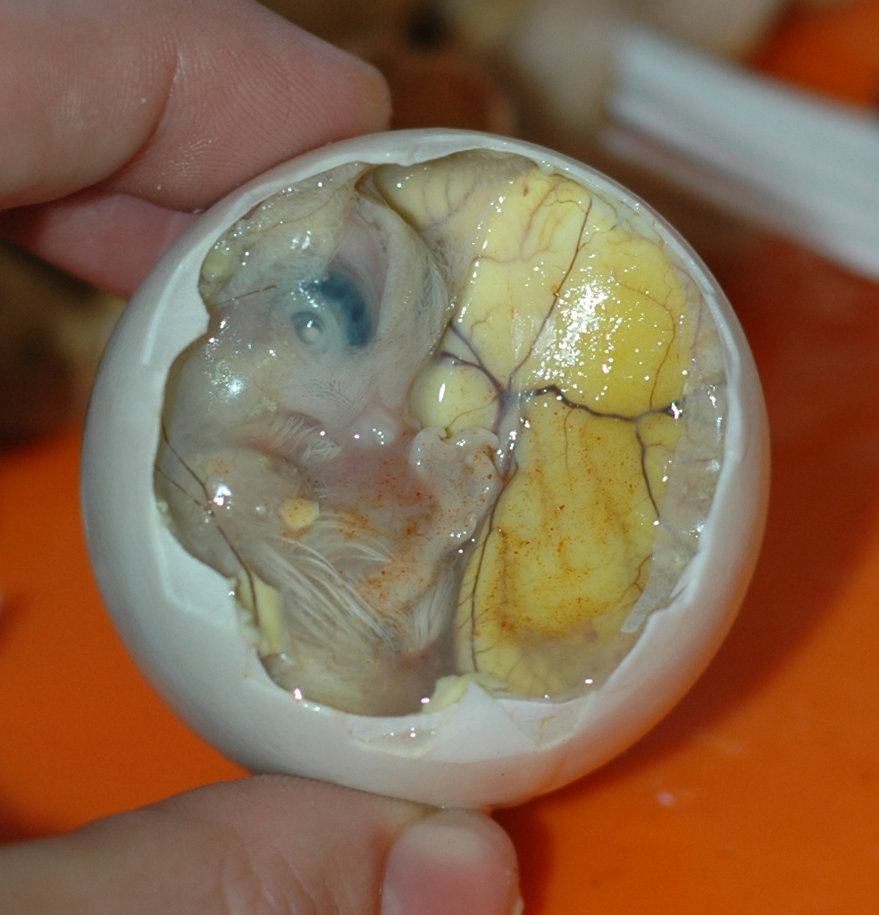 Balut is the greatest food ever.